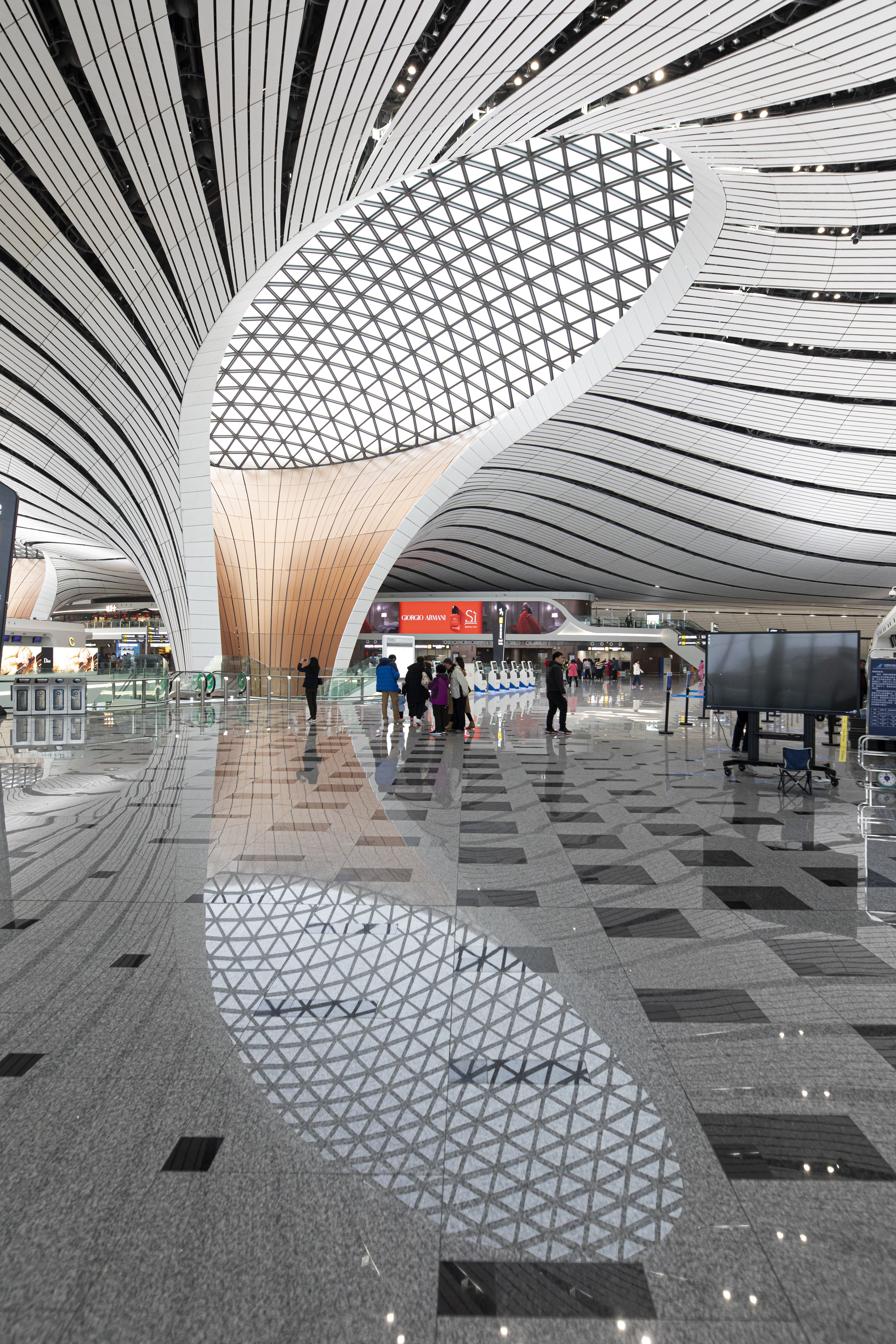 Beijing Daxing International Airport